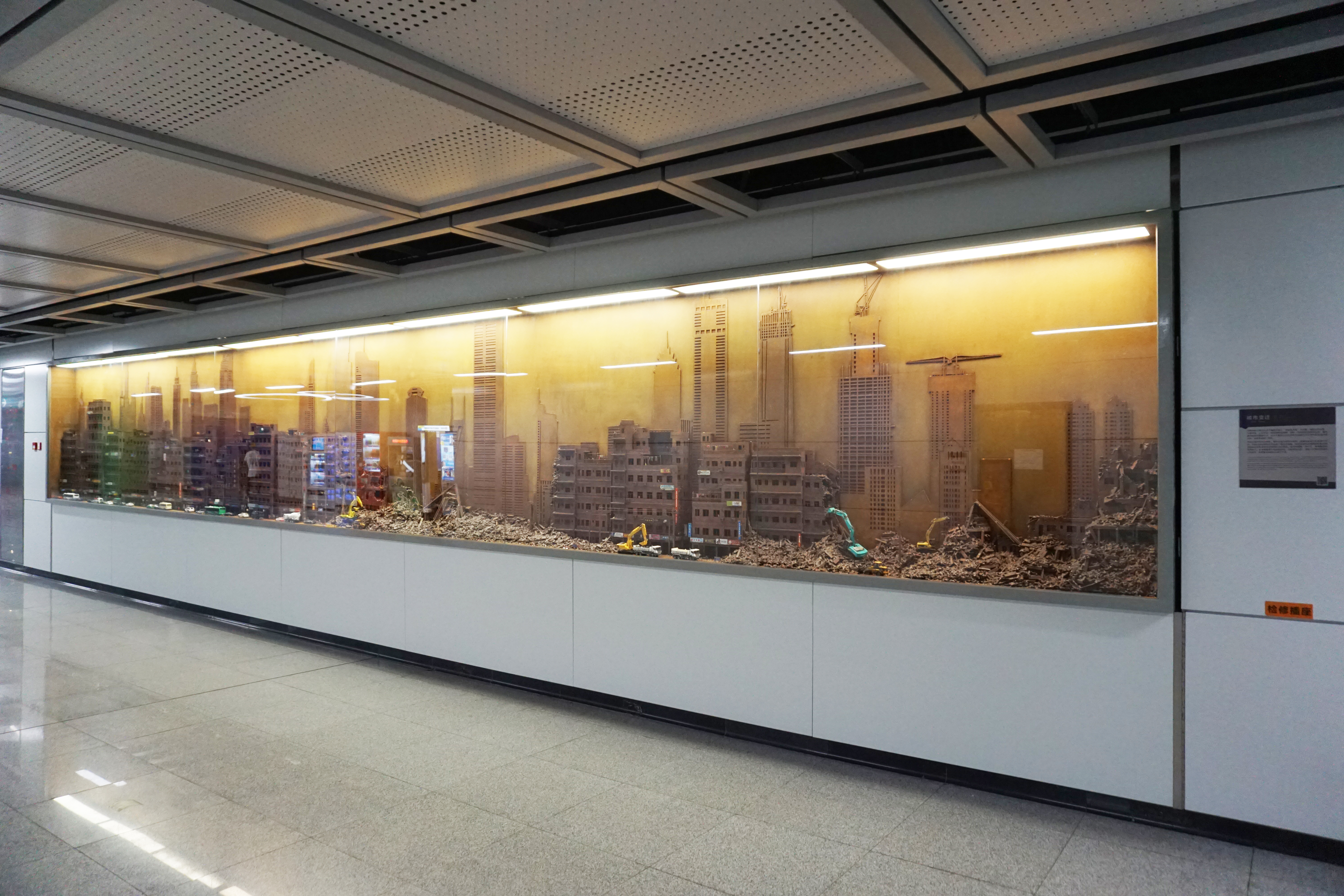 Huangmugang Station in Futian District, Shenzhen.